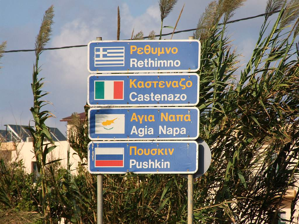 Plates of Rethymno’s twin cities